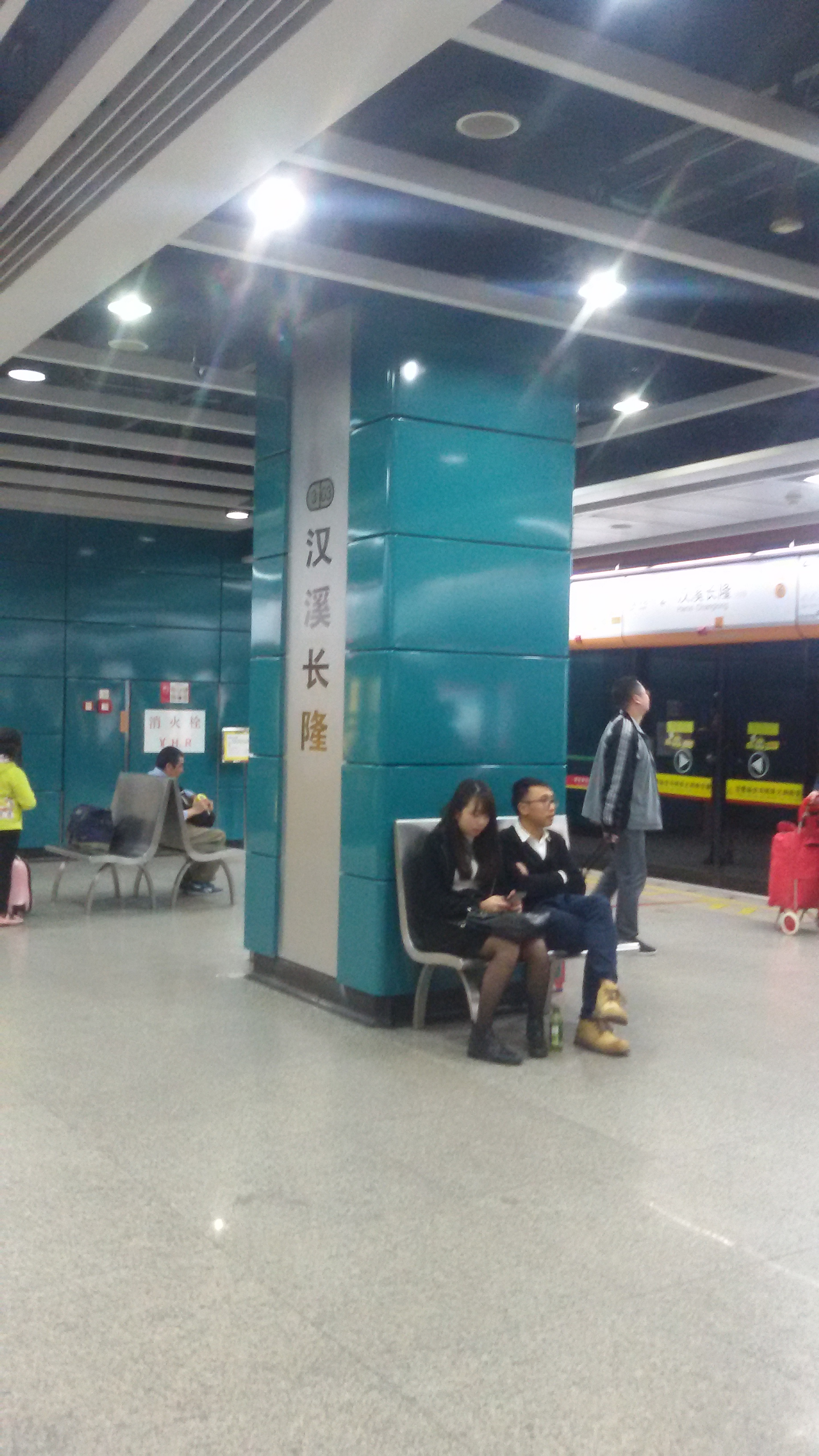 WORD on PILLAR for Line 3 in Hanxi Changlong Station, Guangzhou Metro